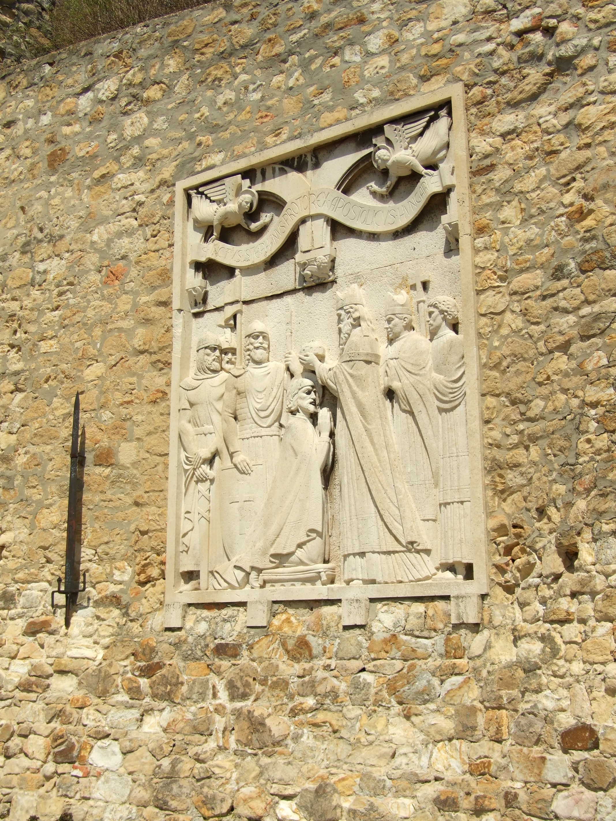 A path to chapel in Esztergom, Komárom-Esztergom comitat, Hungary, 1938